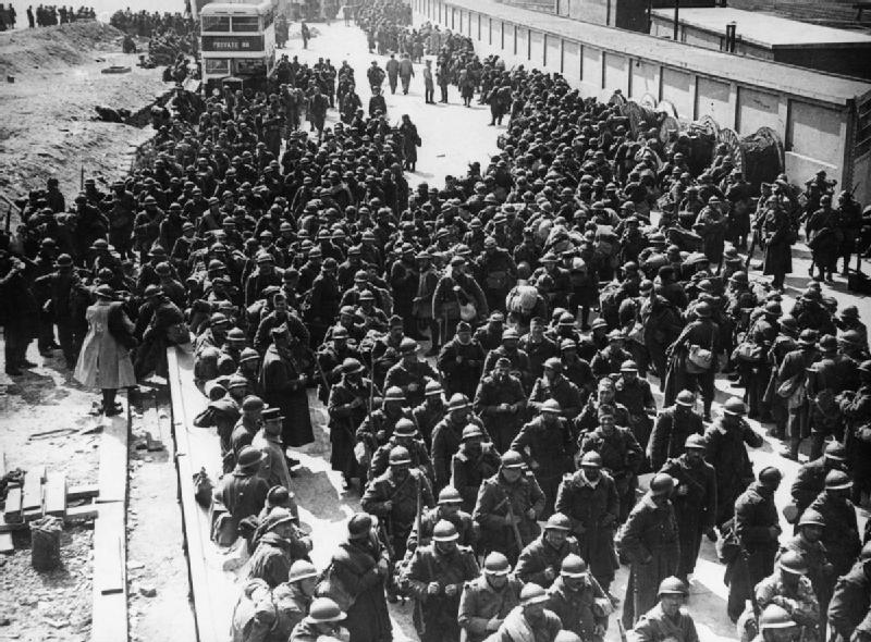 Dunkirk and the Retreat From France 1940 French troops evacuated from Dunkirk arrive in the UK.